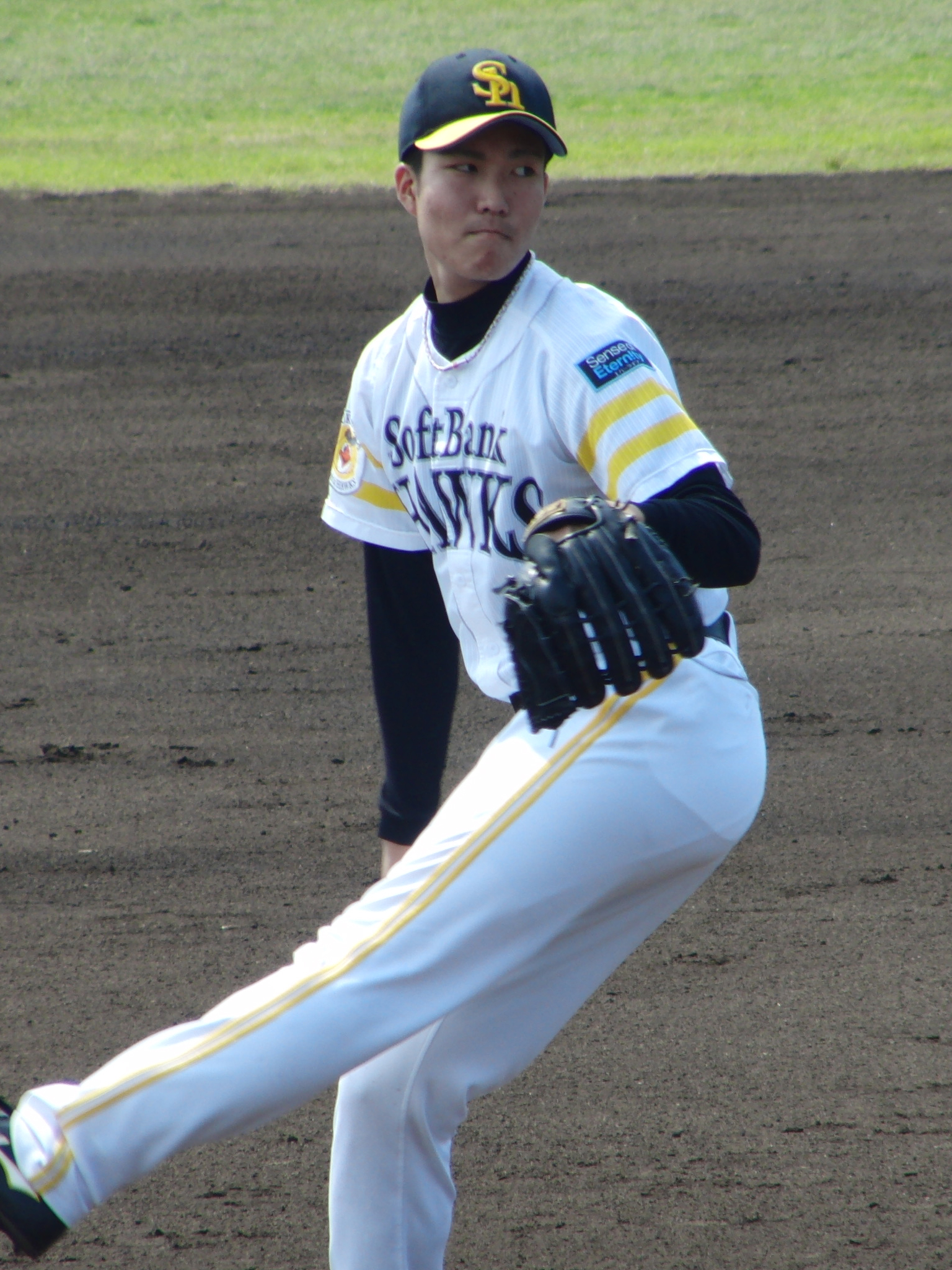 Kodai Senga, pitcher of the Fukuoka SoftBank Hawks, at Gannosu Baseball Ground.